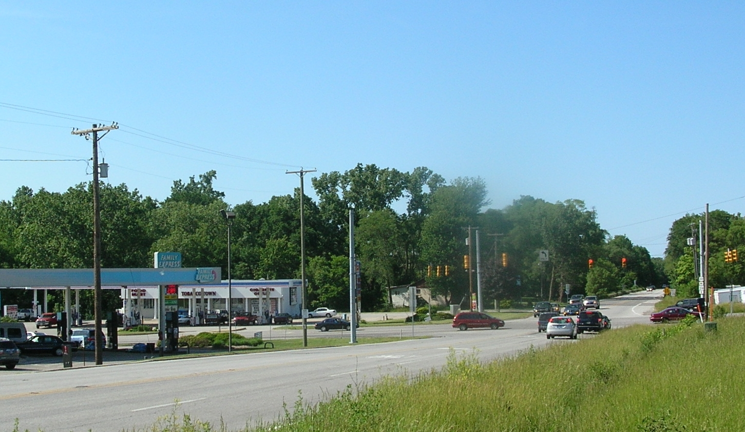 View north on Indiana State Road 39 toward the intersection with U.S. 20, at Springville in LaPorte County, Indiana.